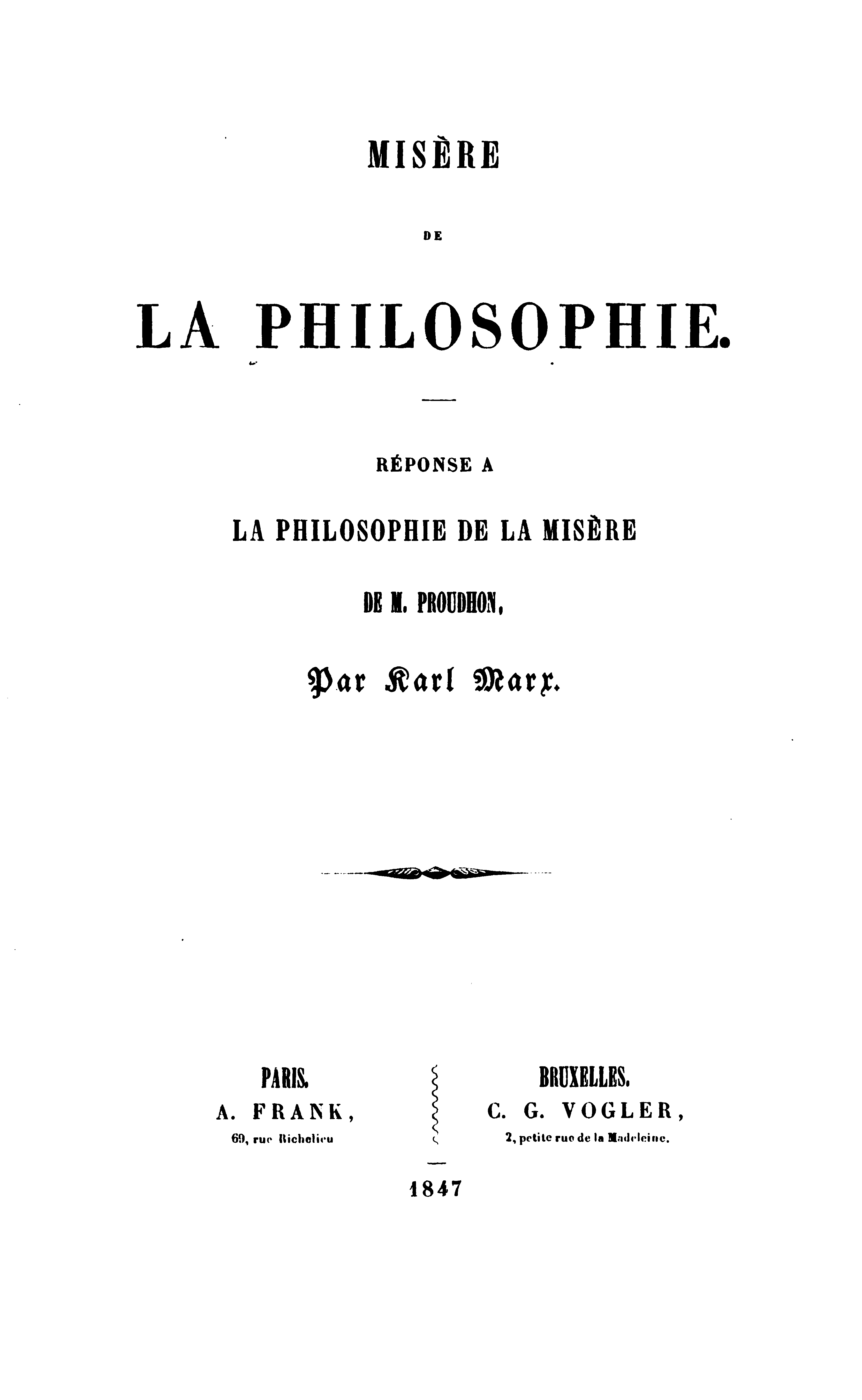 Cover of the 1st ed of Misère de la philosophie by Karl Marx, published in French in 1847